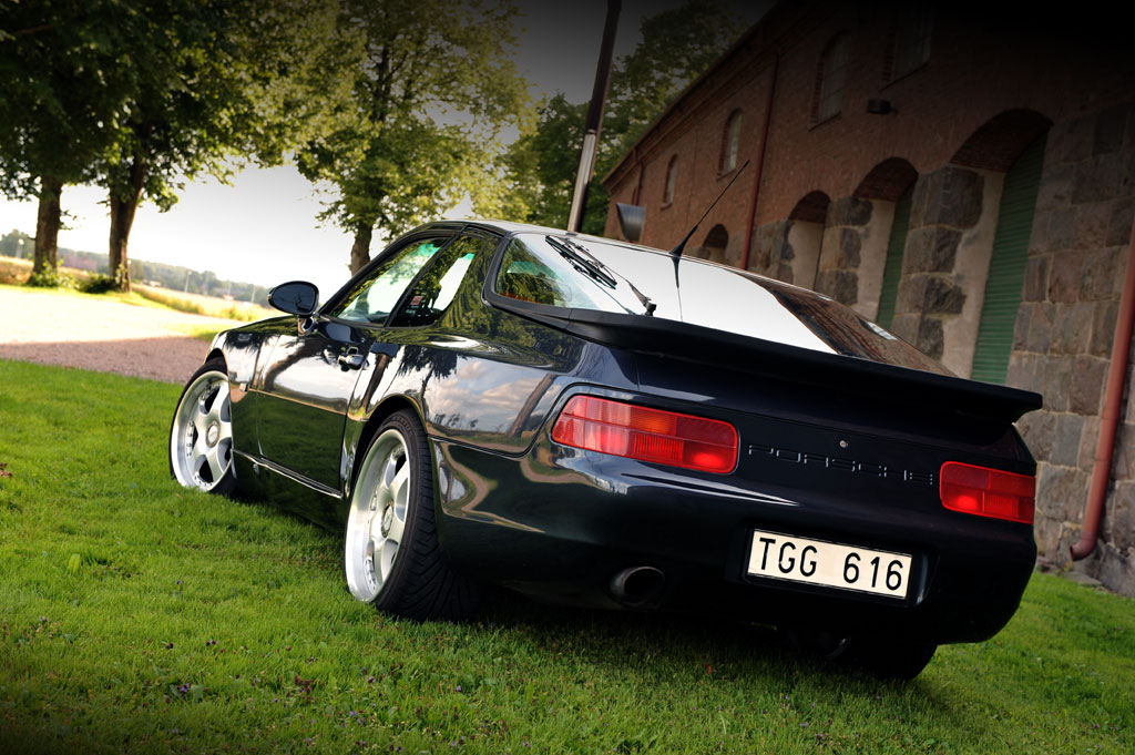 Porsche 968 -92